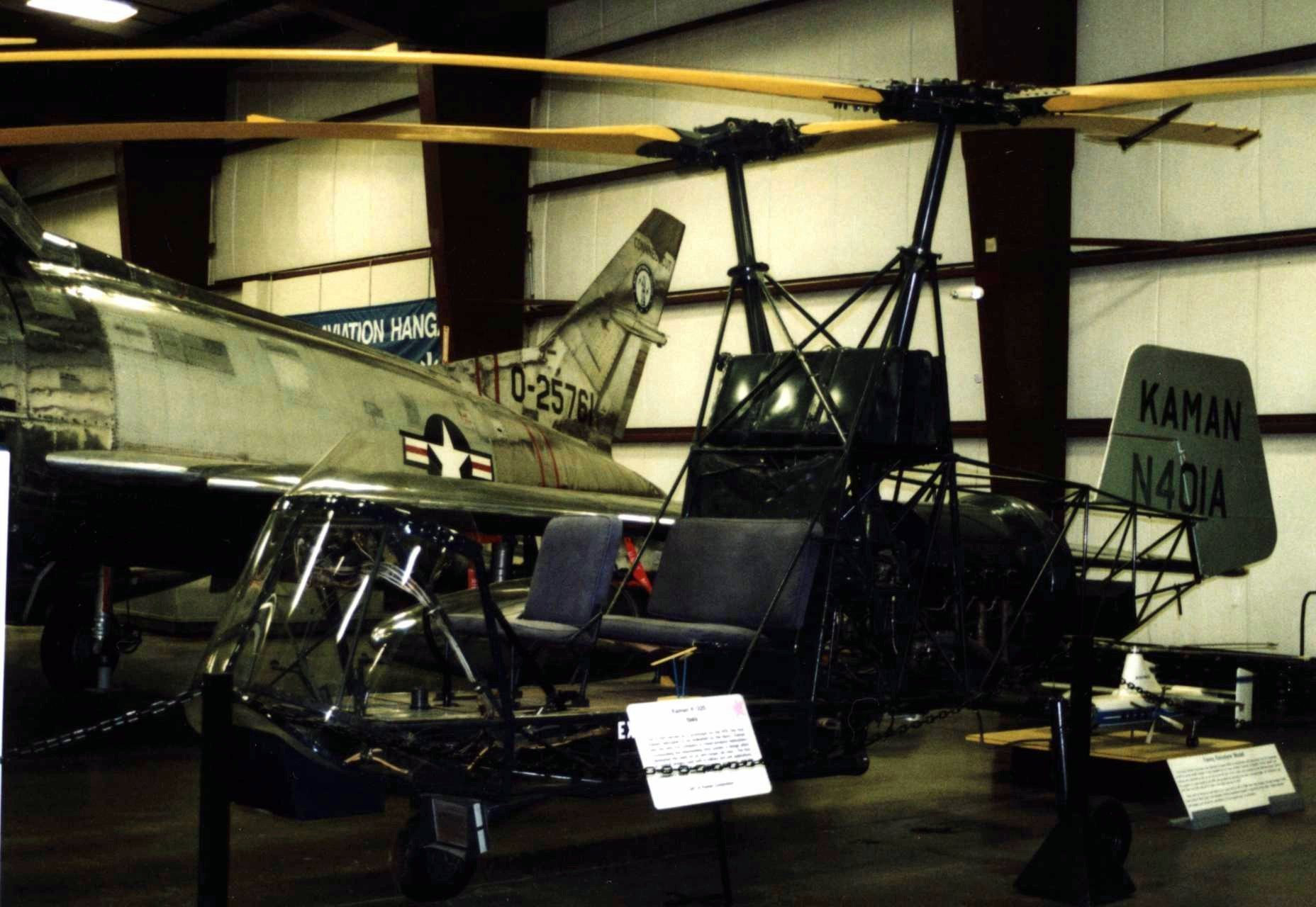 Kaman K-225 helicopter at the New England Air Museum, Bradley International Airport, Windsor Locks, Connecticut